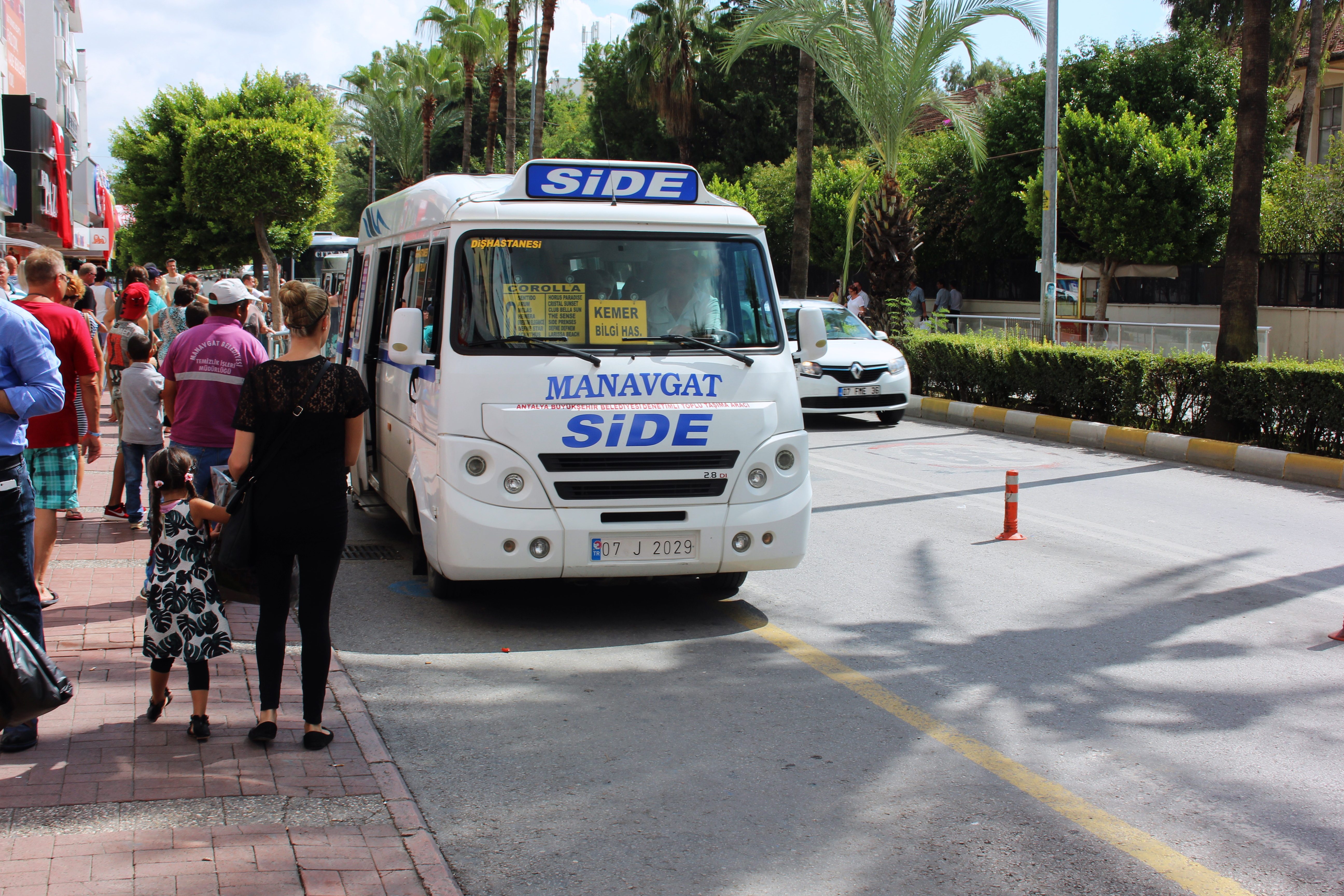 Taxi (Dolmus) in Turkey (Manavgat)